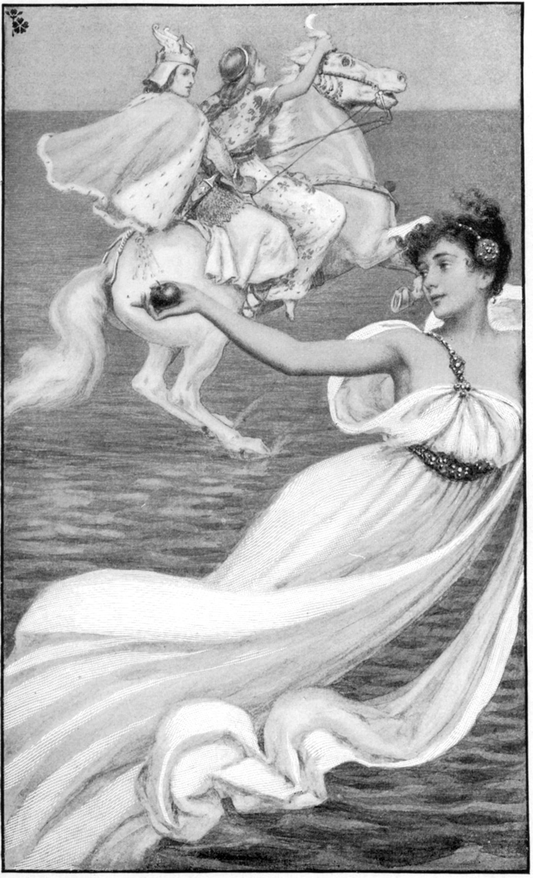 "Sometimes a maiden held up an apple of gold to Niam and Usheen, as their slender white horse dashed across the waves of the ocean" •